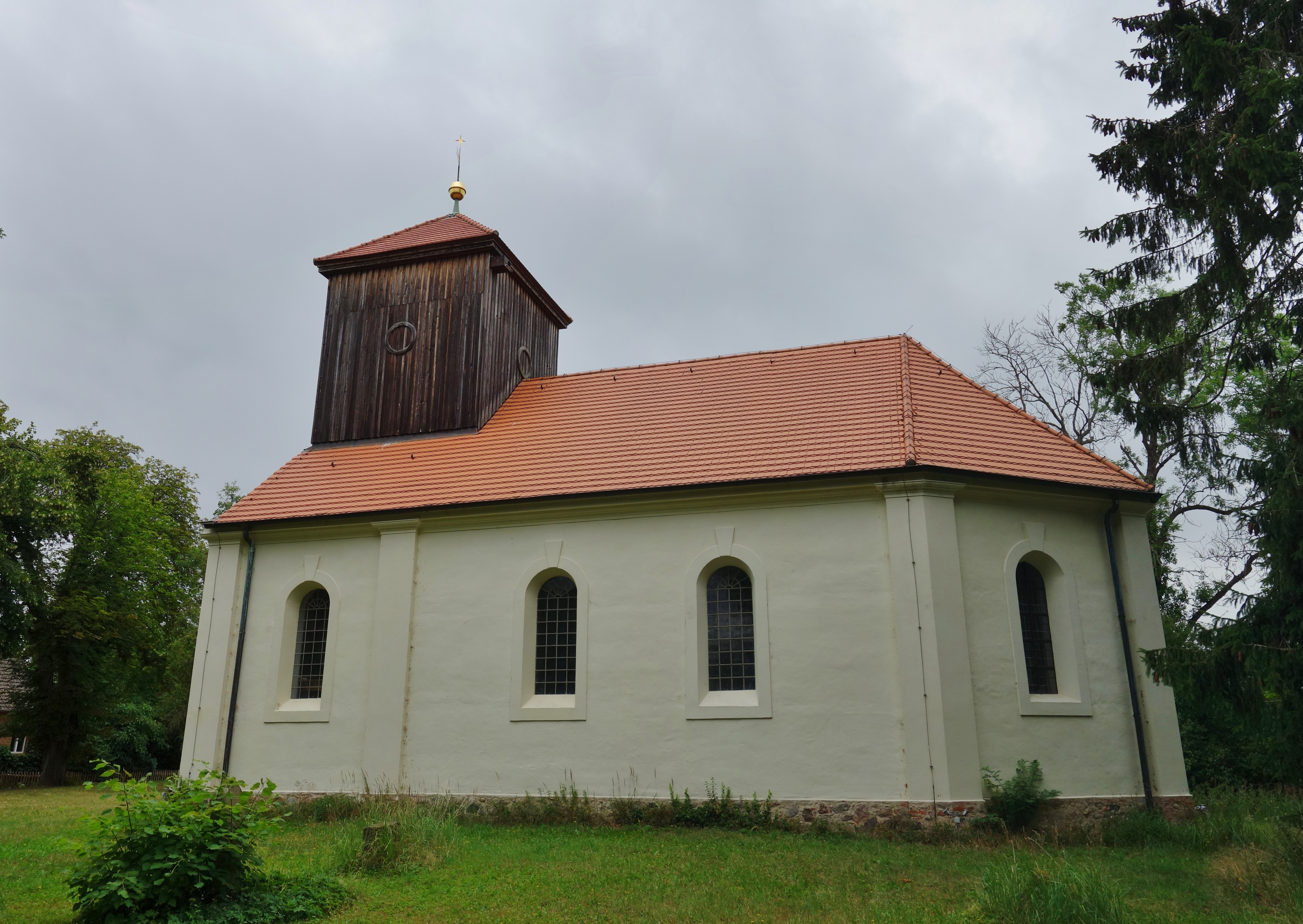 South-south-eastern view of the church in Küstrinchen , Lychen municipality , Uckermark district, Brandenburg state, Germany